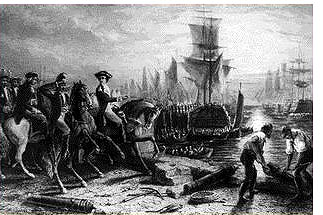 An engraving depicting the British evacuation of Boston, March 17, 1776, at the end of the Siege of Boston